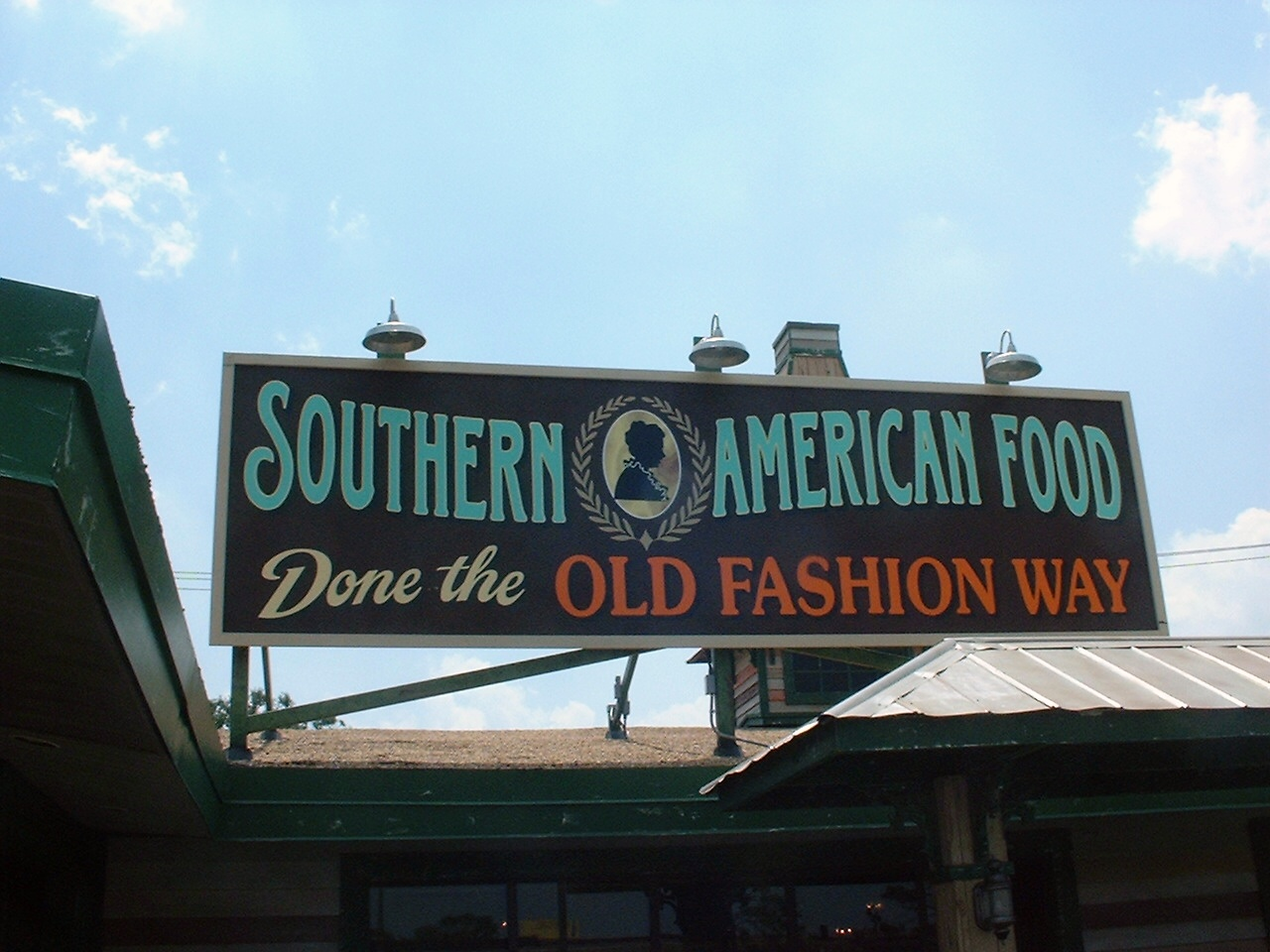 A sign touting "southern cuisine" at Granny Cantrell's Whistle Stop Café in Pensacola. Picture taken by me on 5/24/2005.